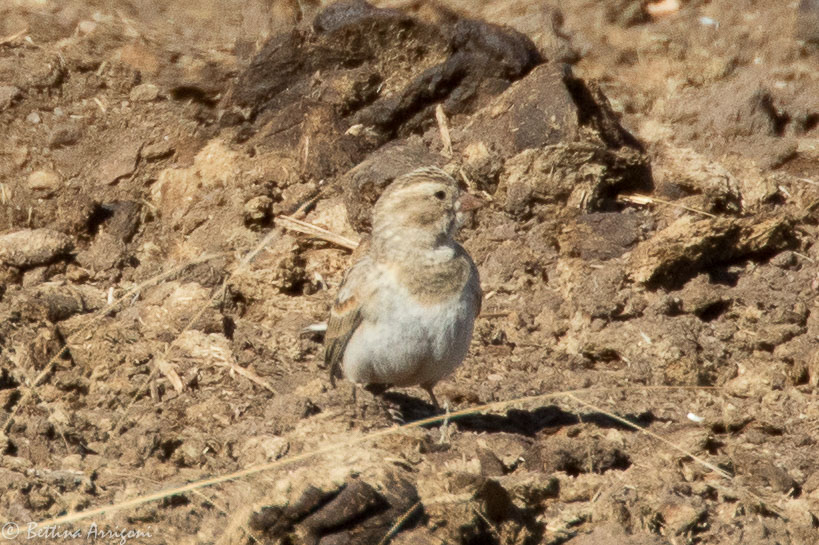 Thick-billed Longspur, Davis Pasture, Sonoita, AZ - 2018-02-08|11-17-59.jpg